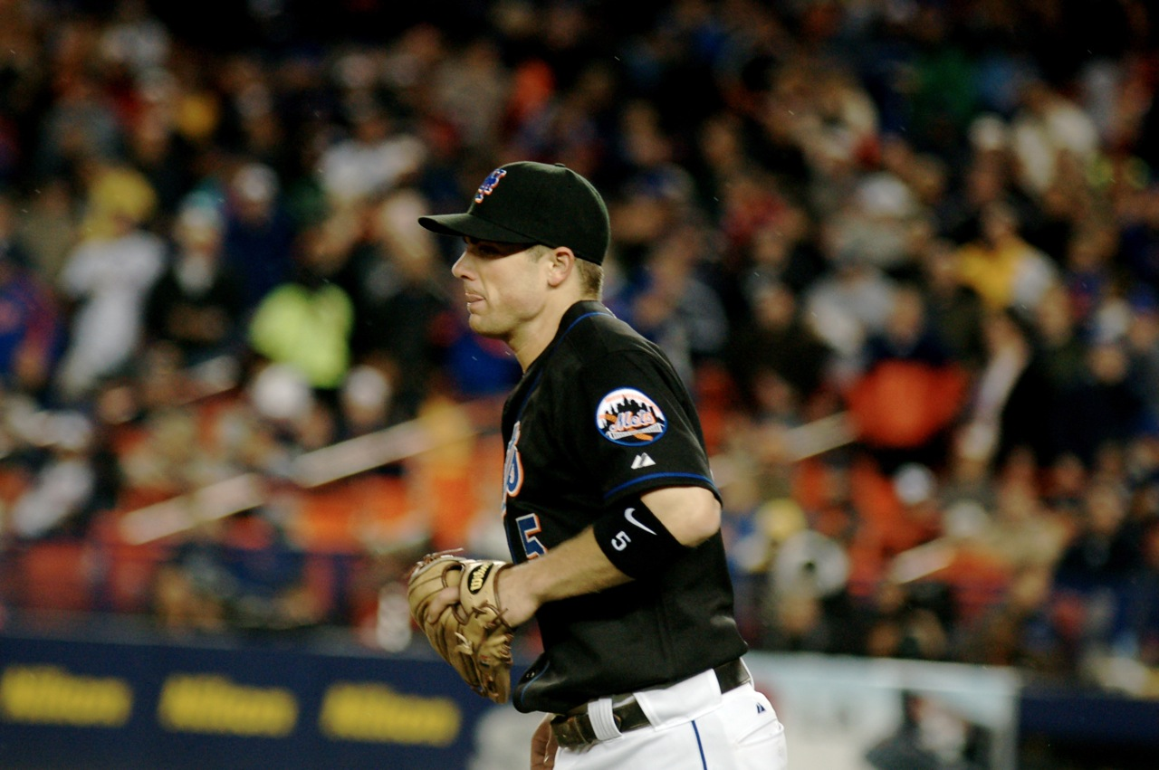 New York Mets Third Baseman David Wright